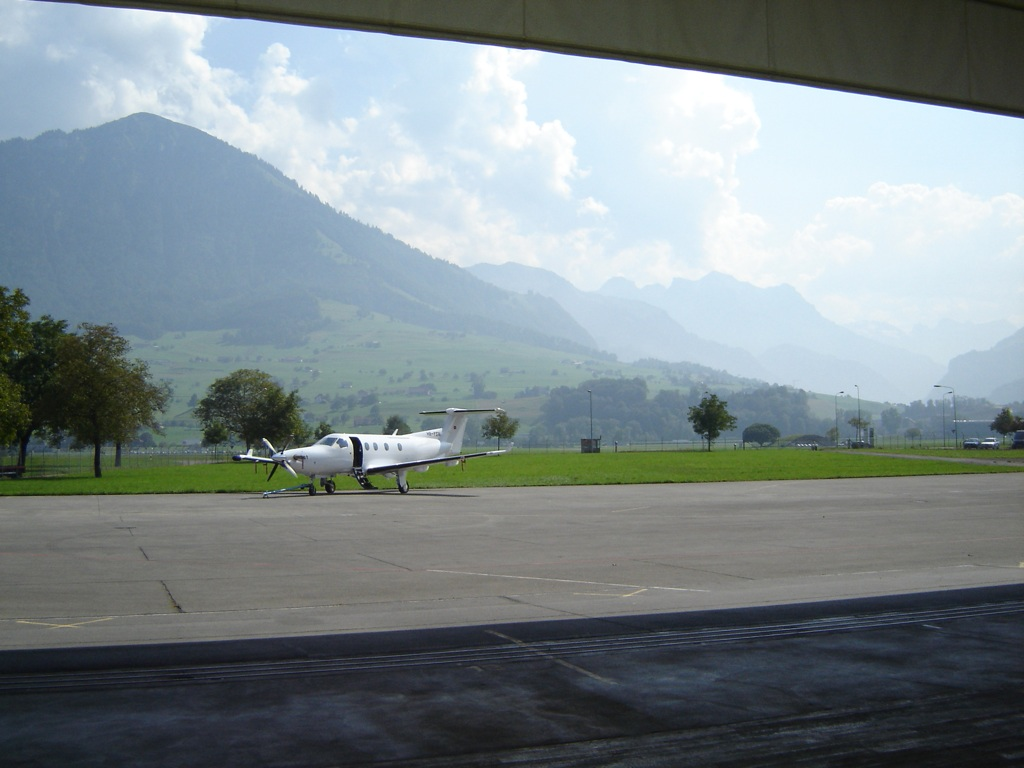 The Pilatus factory near Luzern is where (some of) James Bond Goldfinger was filmed. What you see there is a PC-12. For more information, see the Wikipedia article Pilatus Aircraft.